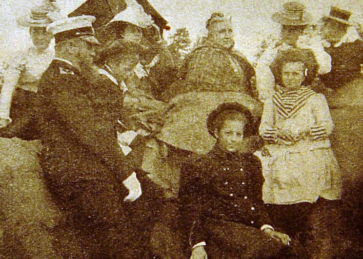 Madame Makharoff La famille Makharoff à Peterhof